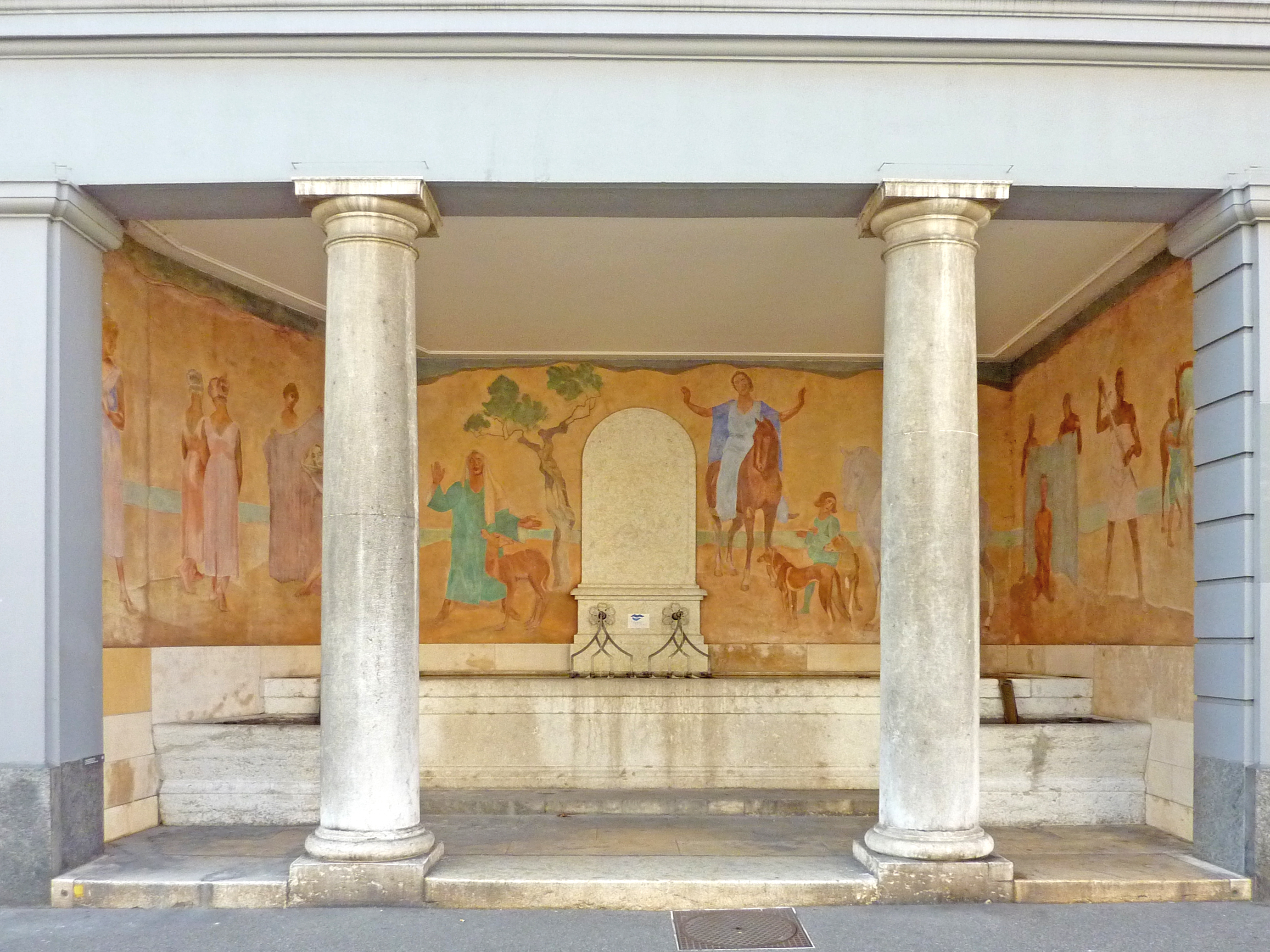 The Niche Fountain Spalenberg with murals illustrating scenes from the life of St. John the Baptist, painted by Numa Donzé.